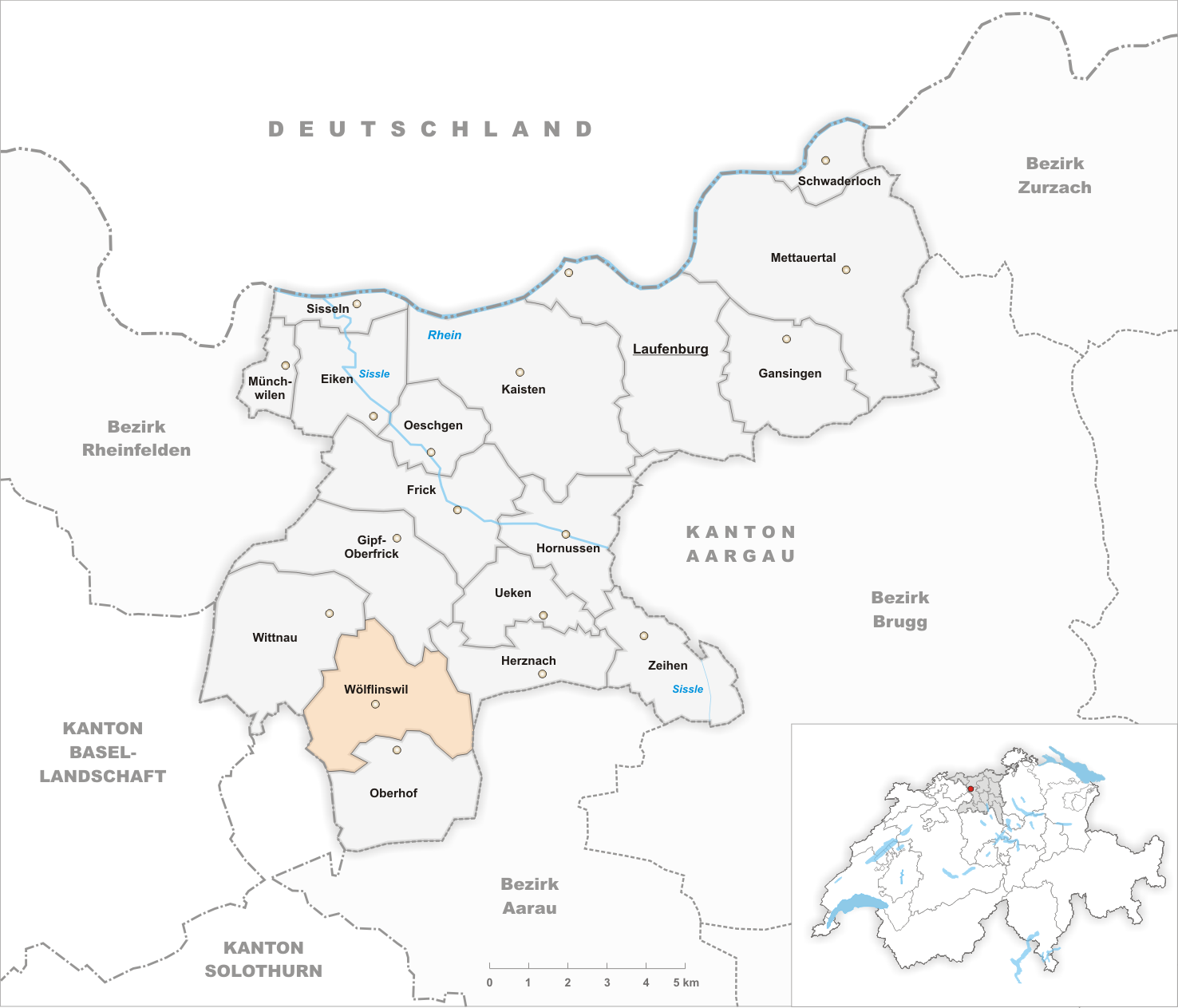 Municipality Wölflinswil